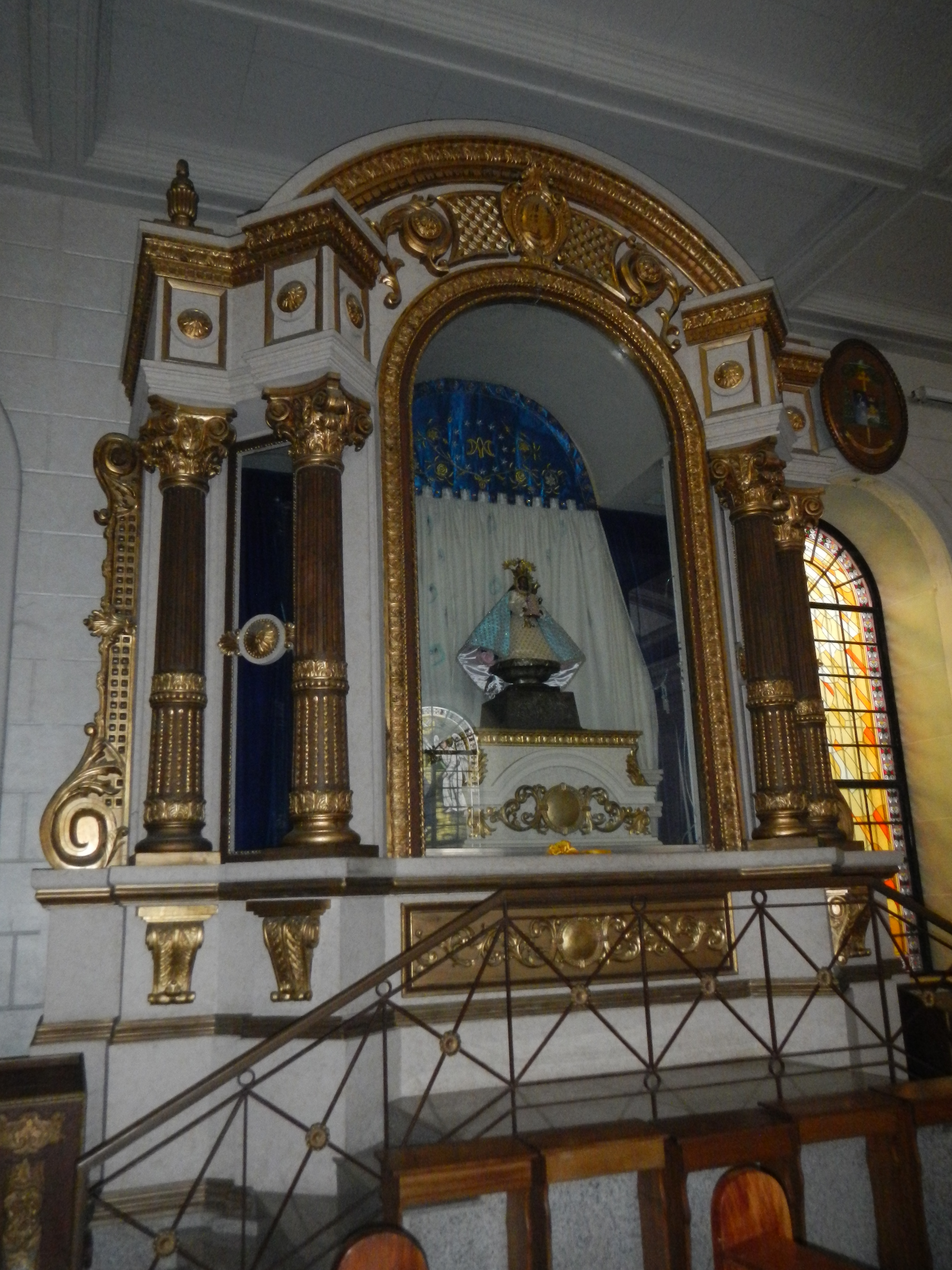 Parañaque Cathedral[1]St. Andrew's Cathedral, officially known as The Cathedral Parish of St. Andrew, is considered one of the oldest churches in the Philippines. It was established in 1580 by Spanish Augustinian friars.The church is the seat of the Roman Catholic Diocese of Parañaque[2], the local church that comprises Parañaque City, Muntinlupa City, and Las Piñas City. ([3]Roman Catholic Archdiocese of Manila). Parañaque[4] The City of Parañaque Andrew the Apostle[5] (Greek: Ἀνδρέας, Andreas; from the early 1st century – mid to late 1st century AD; known by some as Saint Andrew), called in the Orthodox tradition Prōtoklētos, or the First-called, is a Christian Apostle and the brother of Saint Peter. Our Lady of Good Success[6] also called as Our Lady of Good Success (Spanish: Nuestra Señora del Buen Suceso; Filipino: Ina ng Mabubuting Pangyayari) is one of the titles of Blessed Virgin Mary. This title is shared among numerous images around the world — a number of images in Spain, one in Quito, Ecuador, and one in Parañaque City, Philippines. It is claimed that Quito's image had produced an apparition - to Mother Mariana de Jésus Torres.[7] Diocesan Shrine & Patroness of Parañaque City Last August 10, 2012, celebrating her 387th enthronement anniversary and feast day, a decree from His Holiness Pope Benedict XVI, with approval of His Excellency, the Most Rev. Jesse E. Mercado, D.D., the Bishop of Diocese of Parañaque stating that the Cathedral Parish of St. Andrew will be the "Diocesan Shrine of Nuestra Señora del Buen Suceso", as delivered by Rev. Fr. Carmelo Estores, after the greeting of the Solemn High Mass. Last September 8, 2012, on her 12th canonical coronation anniversary, the Diocese of Parañaque declared Nuestra Señora del Buen Suceso as the official Patroness of the City of Parañaque. The Mass was attended by Parañaque City government officials and some lay people.